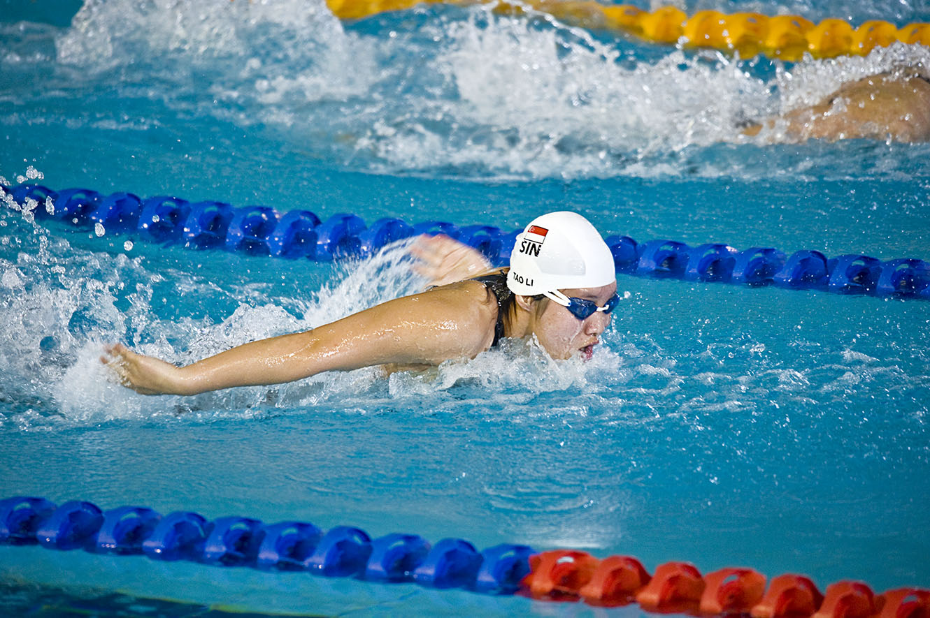 Singaporean swimmer Tao Li blasting her way to a gold medal in a time of 56.85 seconds in the finals of the 100 metres short-course (25 metres) butterfly event at the FINA/Arena Swimming World Cup, held at the Singapore Sports School. Technical details: Nikon D3, ISO3200, 1/400s, F6.3; Sigma 150-500mm @400mm focal length.